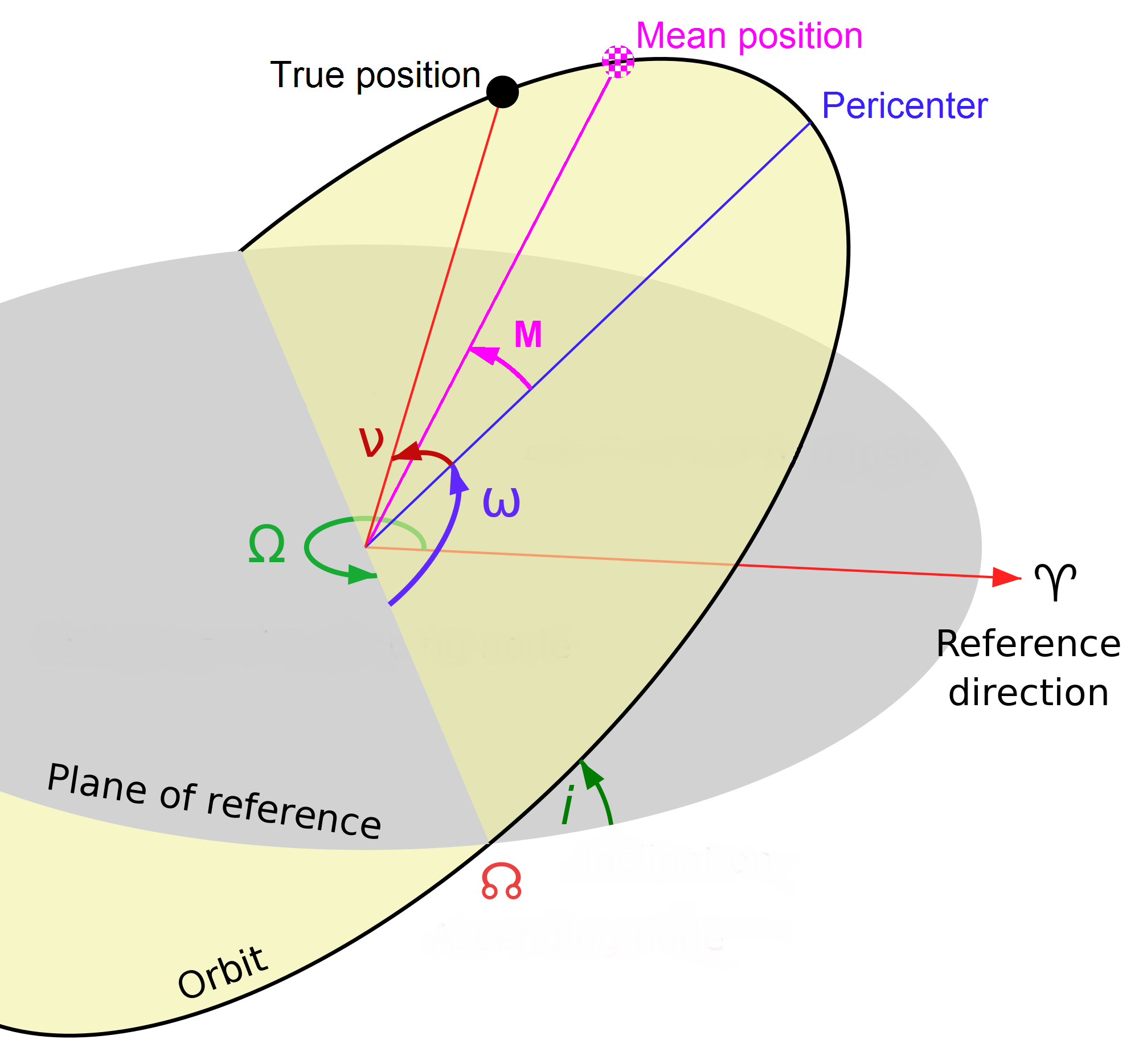 Yet another version of this orbital elements diagram. This one depicts the mean position of the body and the mean anomaly. Adapted from